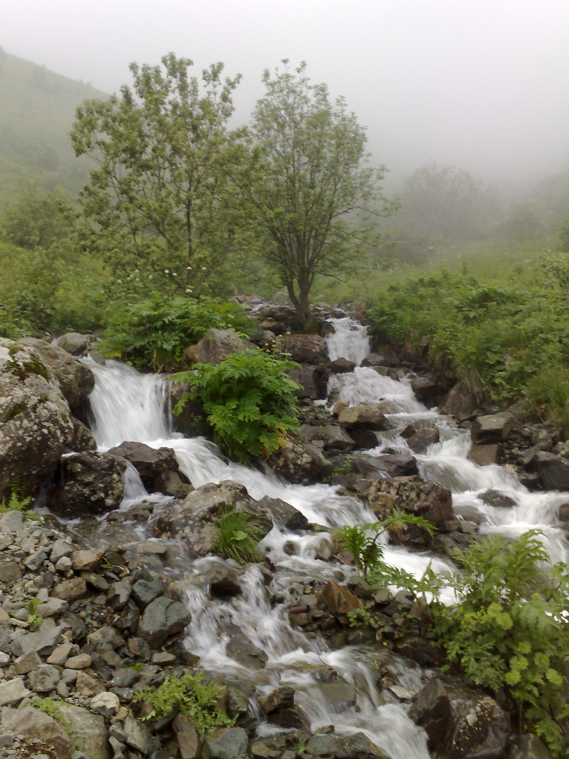 Tavush province of Armenia. Nature of south-east part. No Closest settlement in this area.